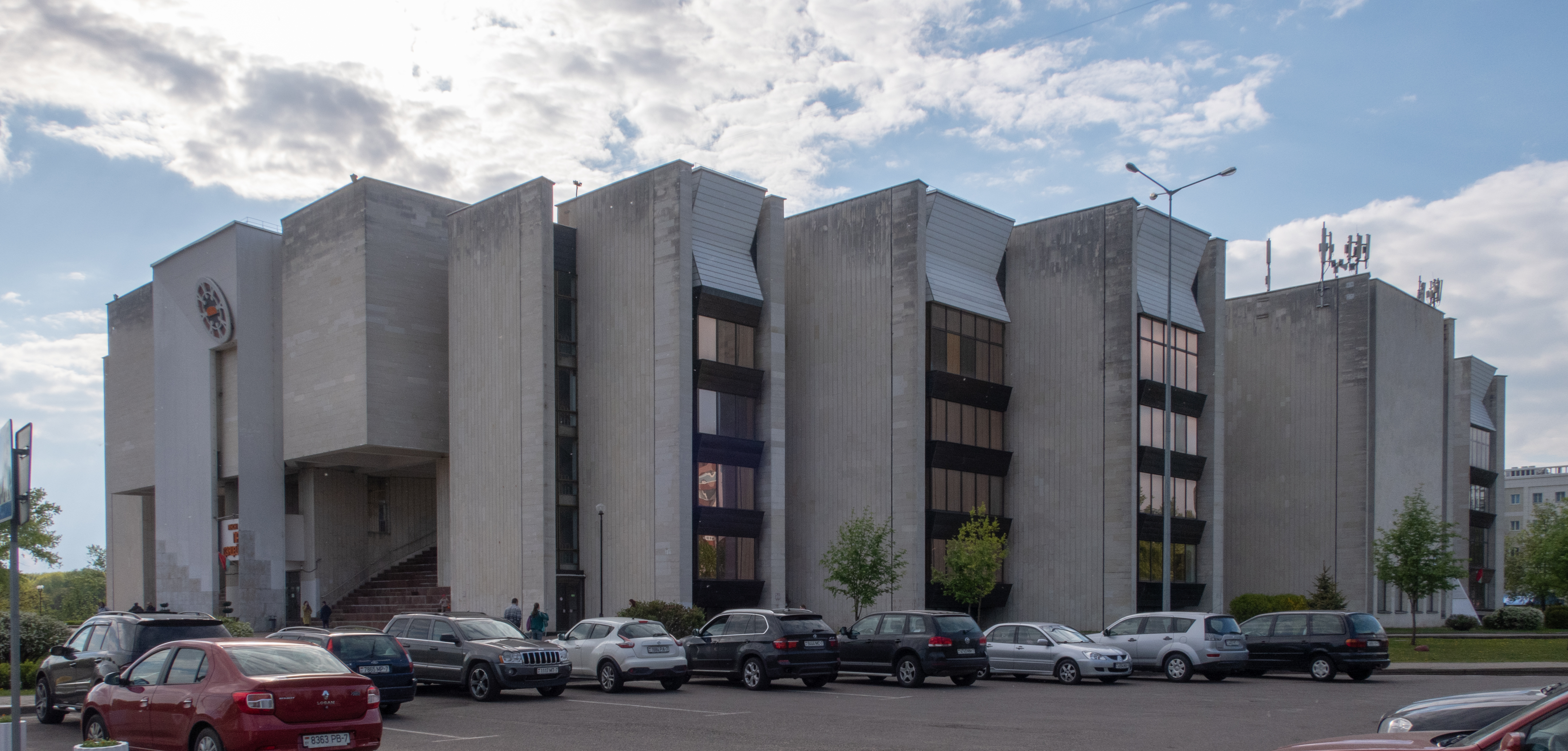 Palace of children and youth. 41 Staravilienski Trakt (Minsk, Belarus)